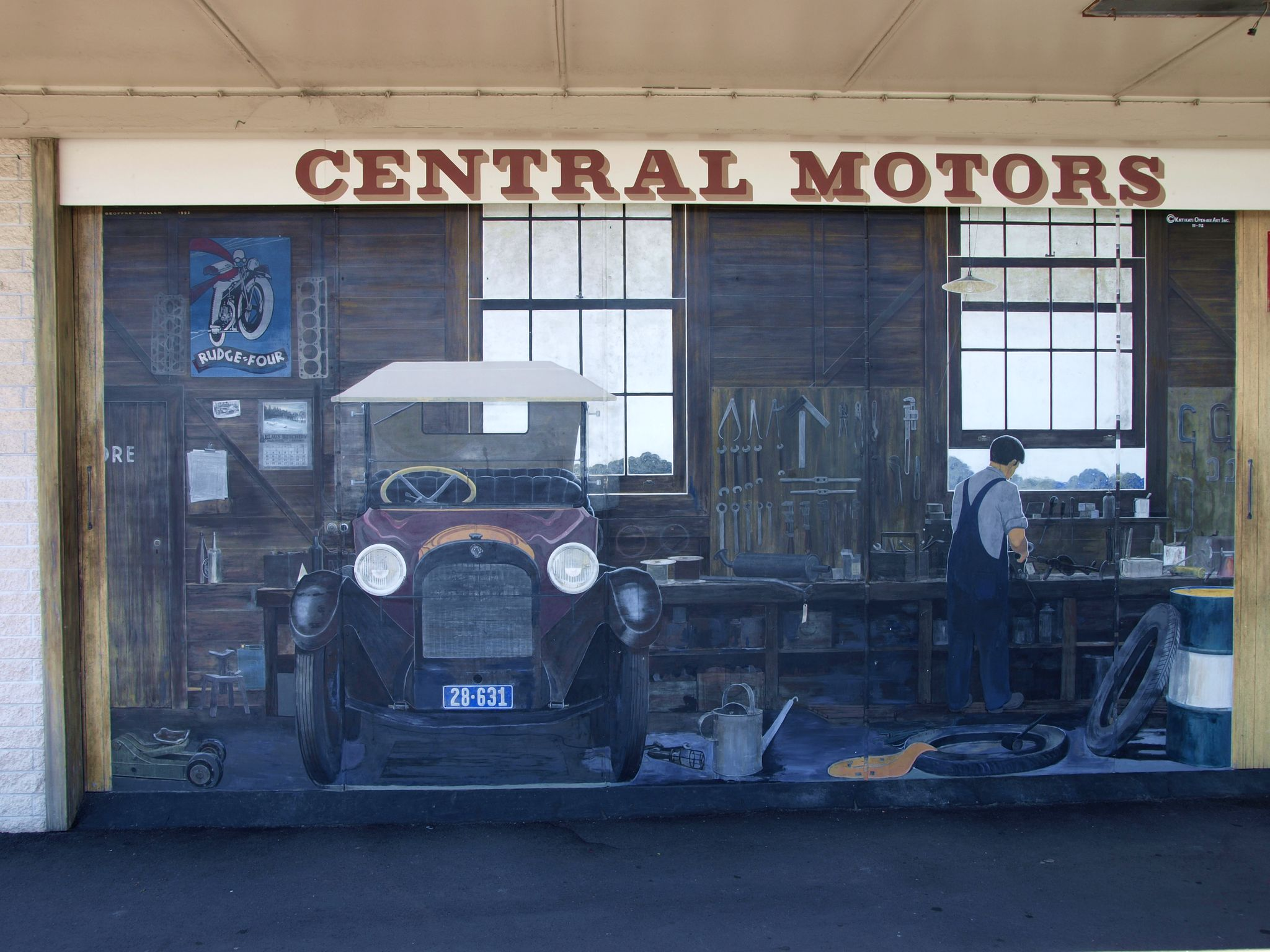 Wall Painting on Main Road at Katikati, Western Bay of Plenty District, North Island, New Zealand